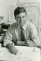 Cropped version the photo from this site